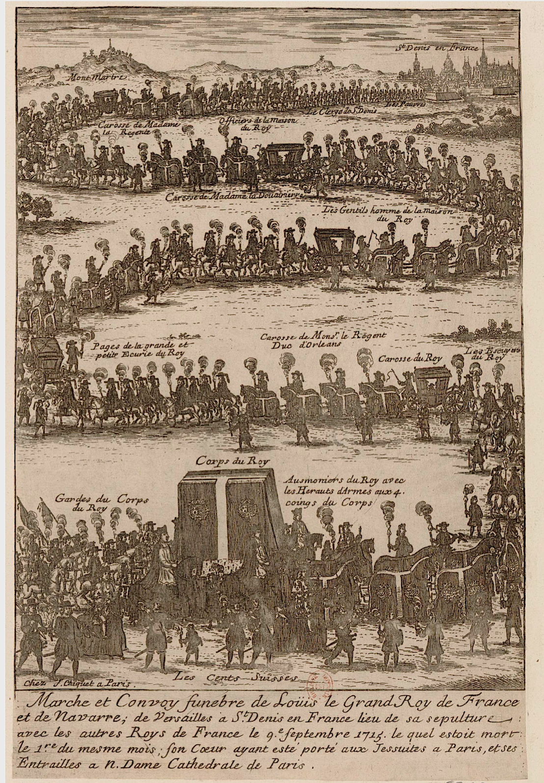 Marche et Convoy funèbre de Louis le Grand, Roy de France et de Navarre de Versailles à S.t-Denis, etching by J. Chiquet, printed in Paris.